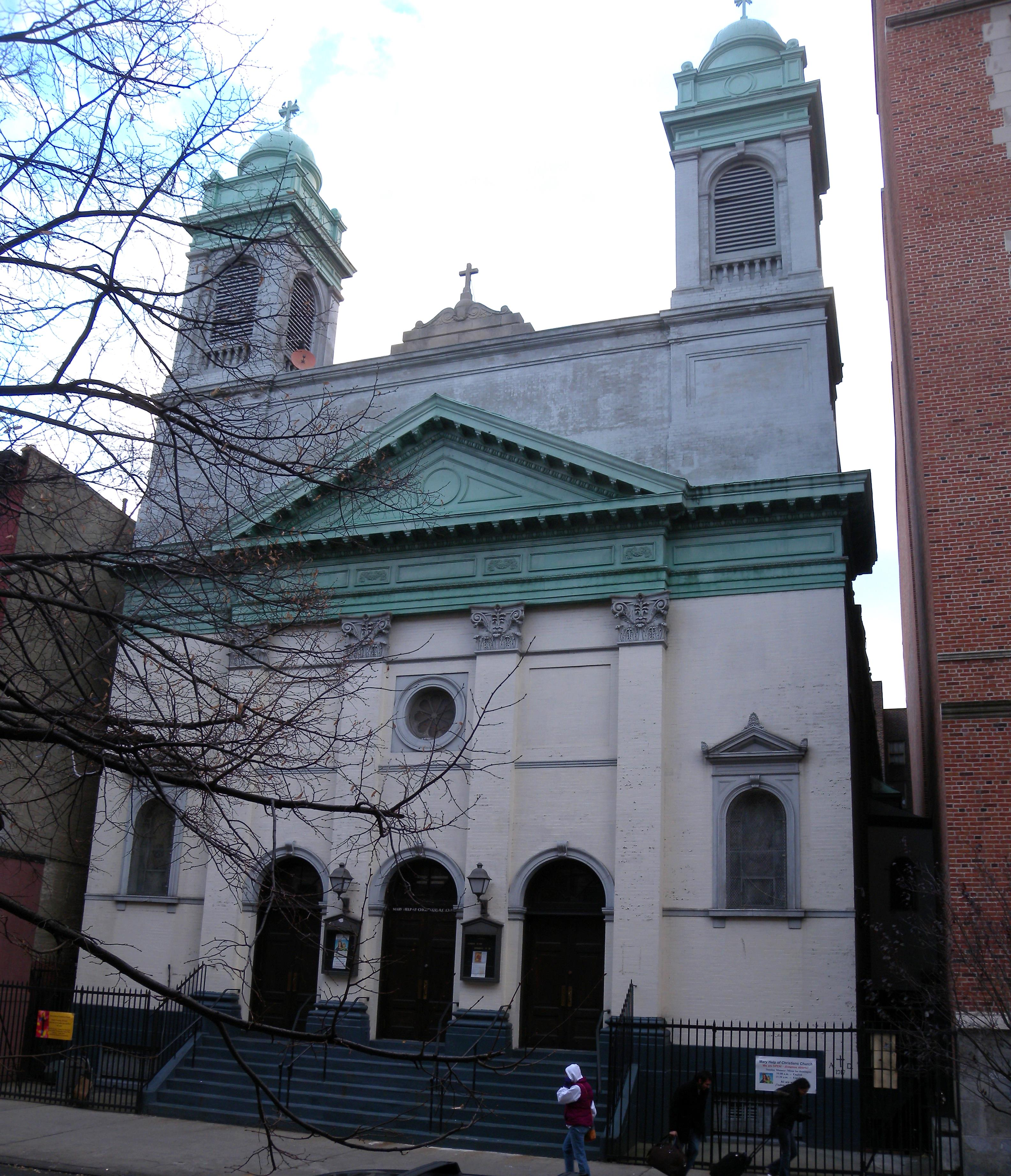 Looking south across 12th Street at Saint Mary Help of Christians Church on a cloudy late afternoon.